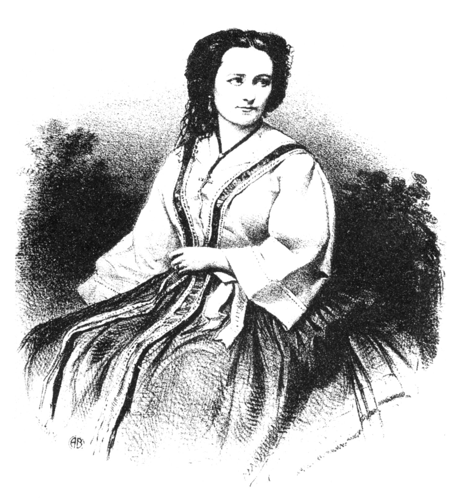 Marie Cabel as Dinorah in Meyerbeer's Le pardon de Ploërmel, a role she created on 4 April 1859 at the Opéra-Comique in Paris